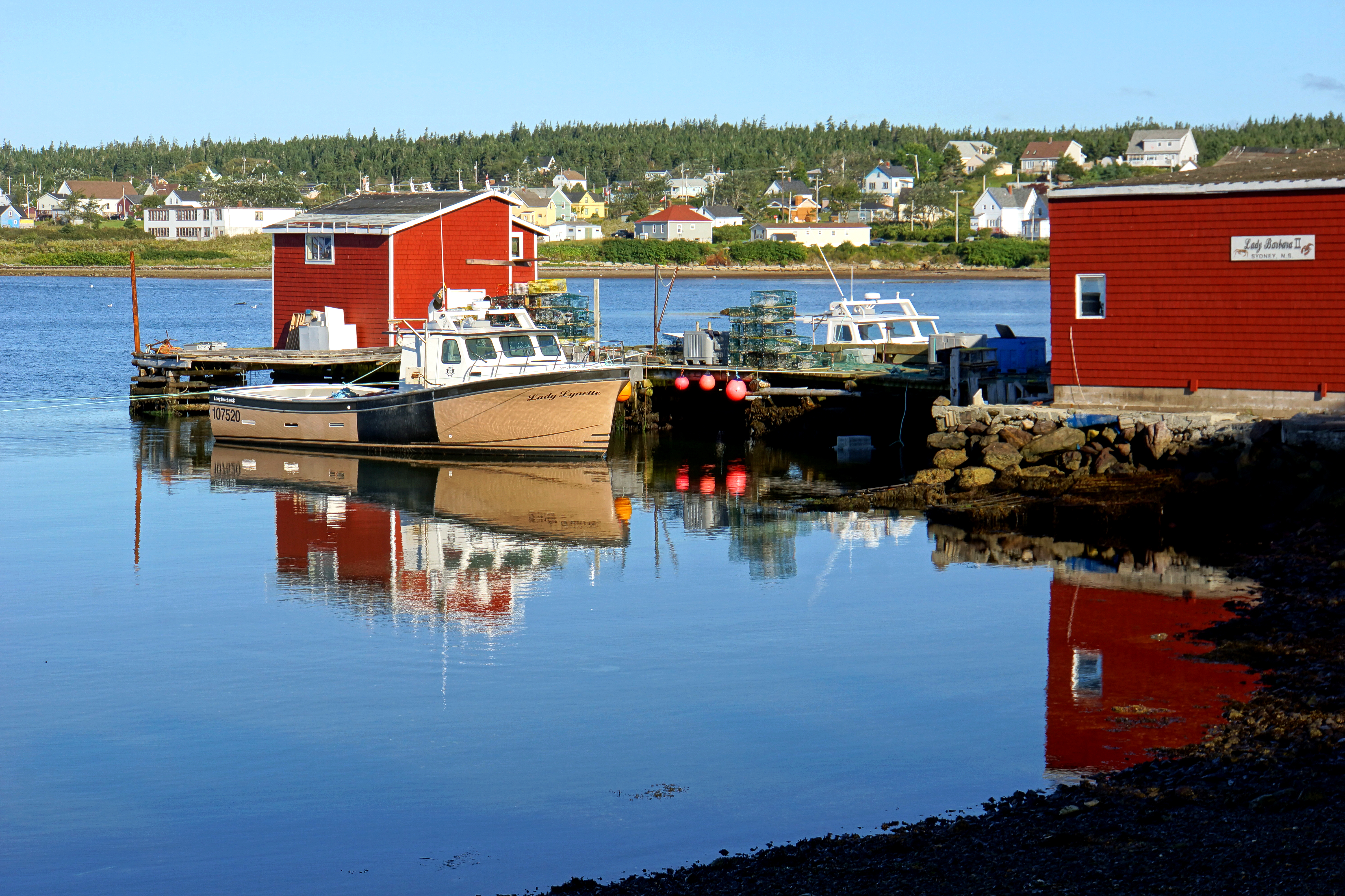 Louisbourg harbor, Nova Scotia) The fishing boat Lady Lynette waits to go fishing.